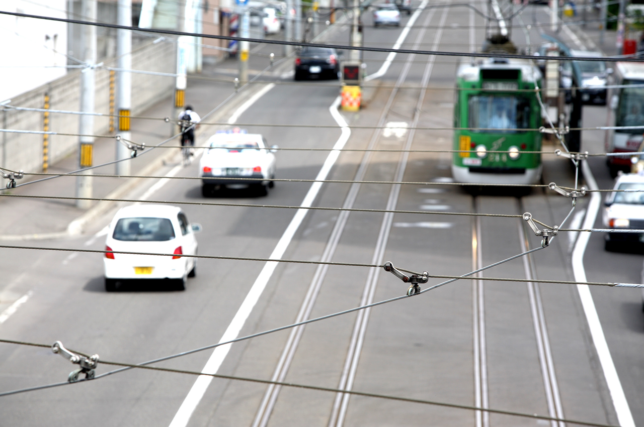 Overhead lines of Sapporo Tram, at Kōnan shōgakkō mae Station ( DC.600V )